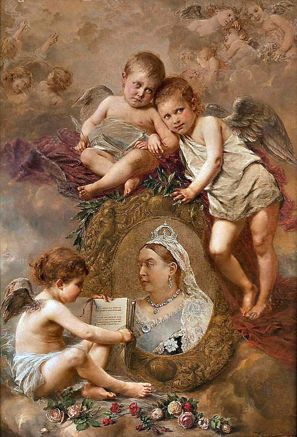 The apotheosis of Queen Victoria